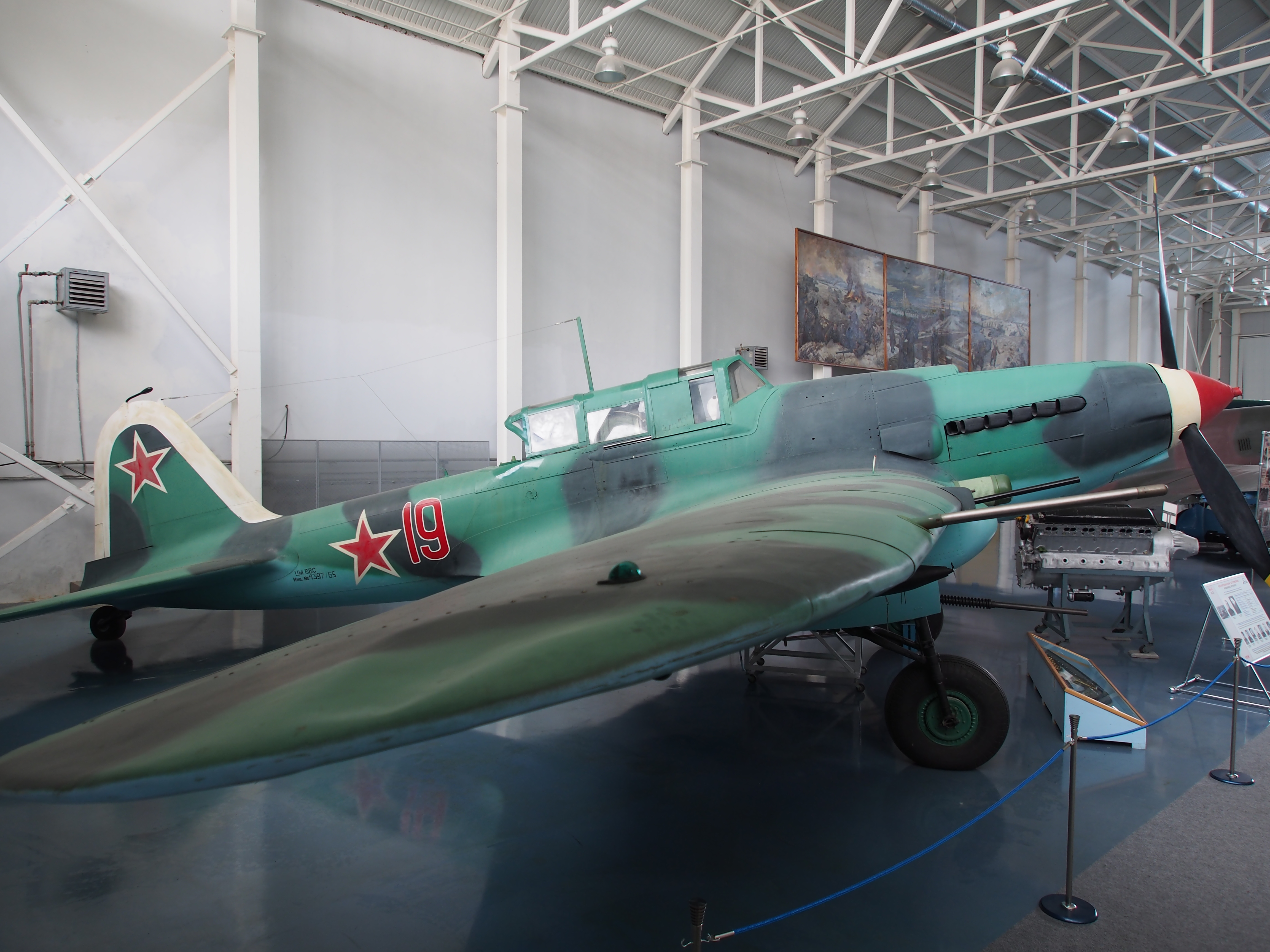 Ilyushin IL-2 Sturmovik at Central Air Force Museum Monino